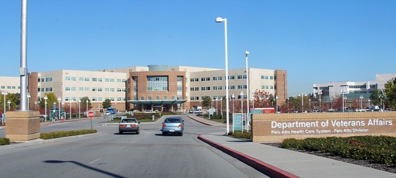 This tertiary level hospital is home to the Palo Alto Division of the Palo Alto Health Care System of the United States Department of Veterans Affairs. It is located at 3801 Miranda Avenue in Palo Alto, next to Foothill Expressway.